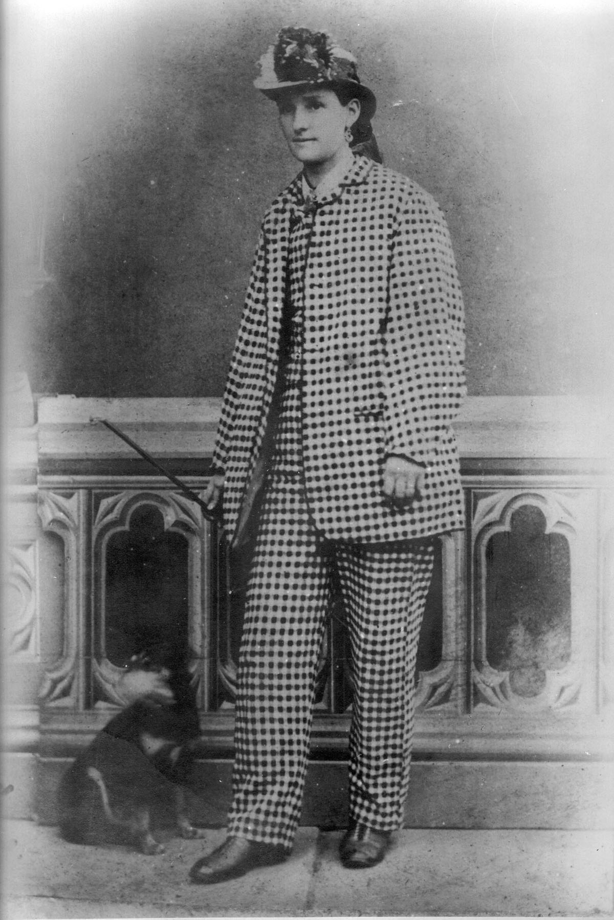 Picture of Emma Sharp in the attire she wore for the 1000 mile walk